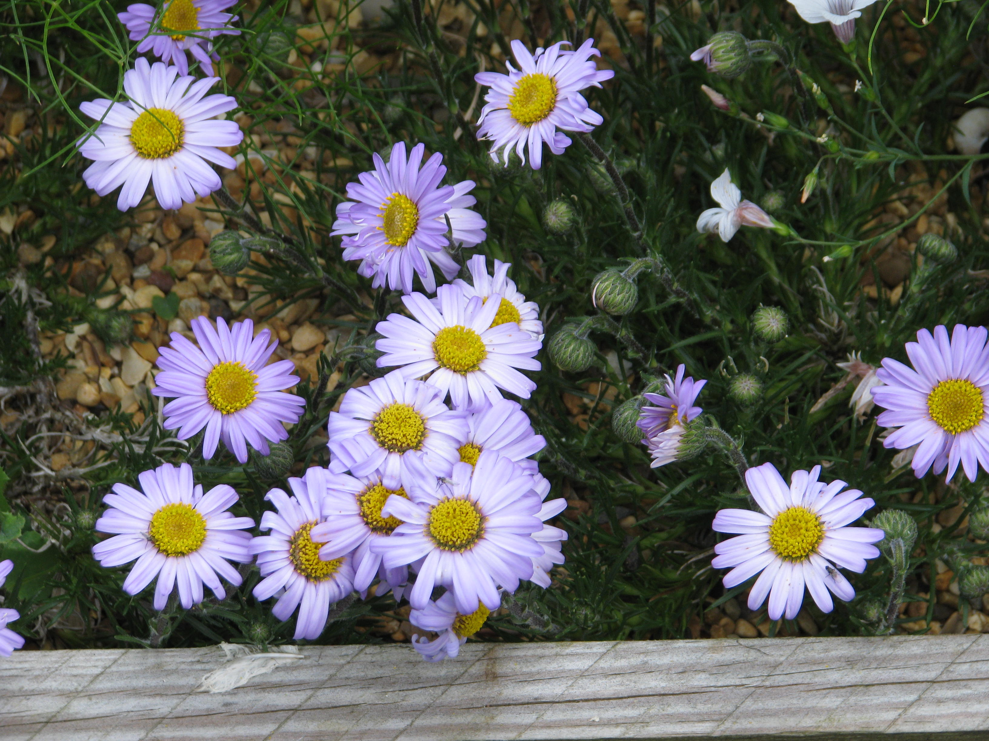 Felicia uliginosa